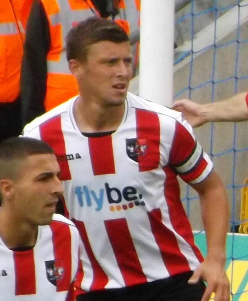 Danny Coles. Image cropped from original at flickr